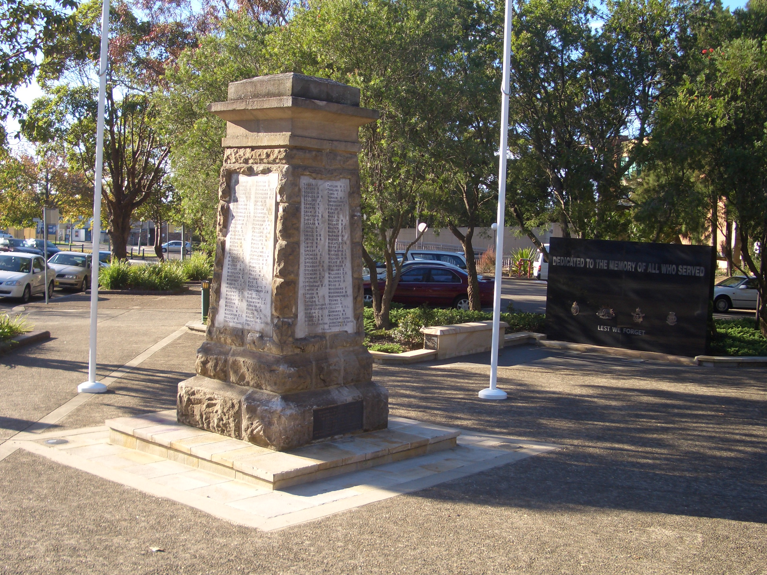 Sutherland_War_Memorial, Eton Street